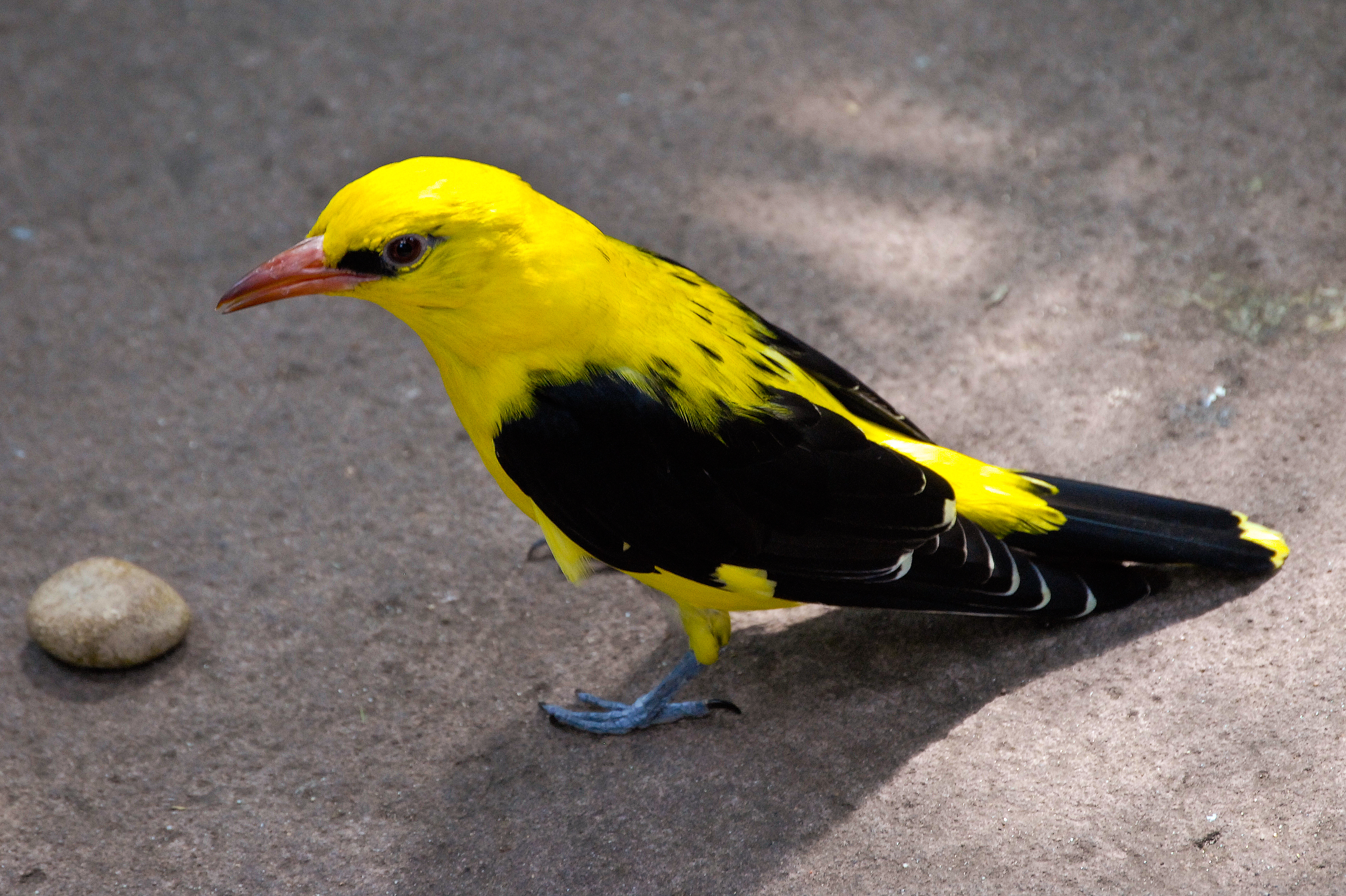 Golden oriole